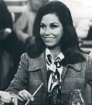 Photo scene from the television program The Mary Tyler Moore Show of Mary Tyler Moore (Mary Richards) at her desk in the WJM-TV newsroom. *Note - this came from a press release dated 1977. The scene is from a 1970 episode.*